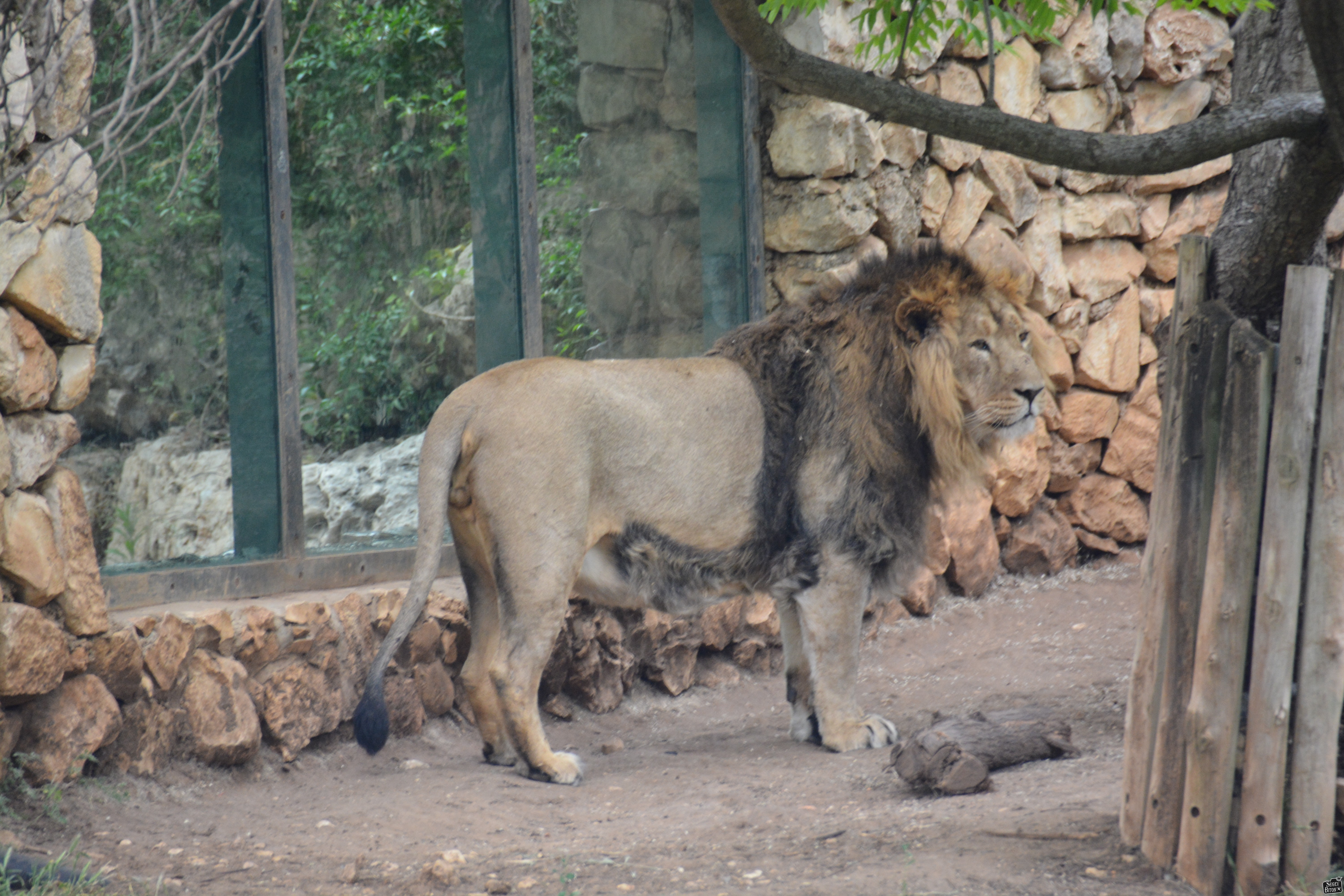 An Asiatic Lion (Panthera leo persica) at the Jerusalem Biblical Zoo.